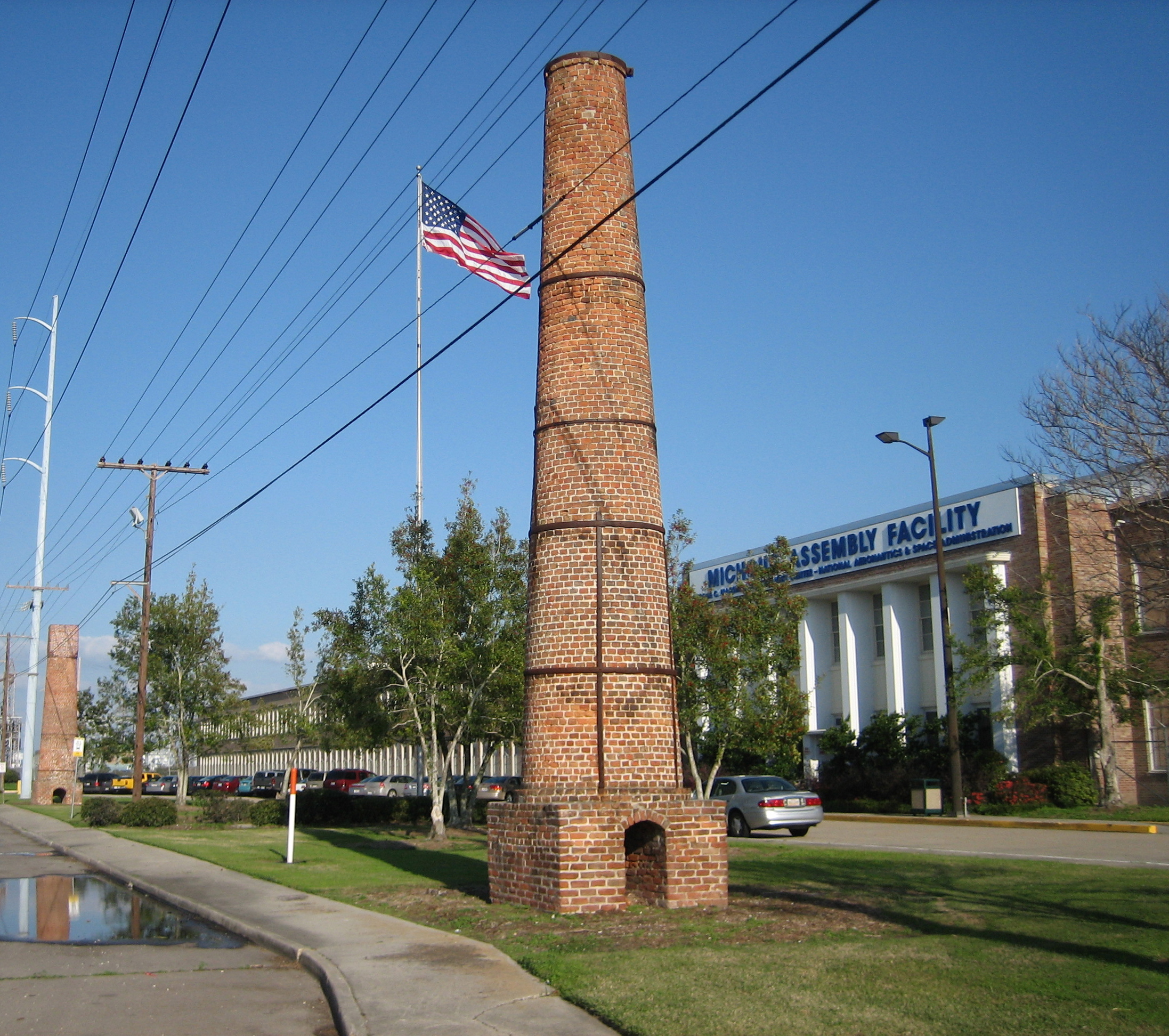 Old sugar plantation smokestacks outside NASA facility on Gentilly Road, formerly village of Michoud, now part of Eastern New Orleans Photo by Infrogmation, January 2006 Similar views: In 1915: Image:MichoudBuggy1915.jpg. 1964: Image:MichoudStacks1964.jpg